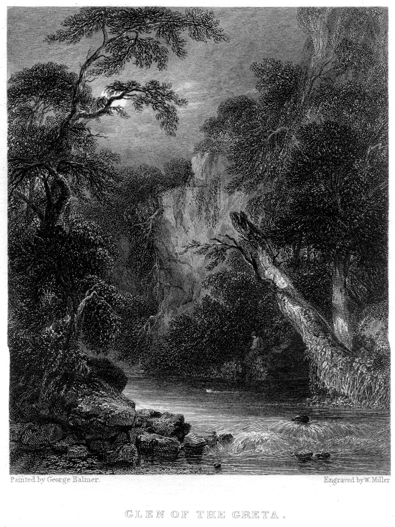 Glen of the Greta, engraving by William Miller (Miller paid £31-10-0 in ix 1832 for engraving), after George Balmer, published in Illustrations: Landscape, Historical, and Antiquarian, to The Poetical Works of Sir Walter Scott, Bart. London, Charles Tilt, 1834 (first published as Rokeby, the frontispiece to The Aurora Borealis, the Friends' Annual, Newcastle upon Tyne 1833)